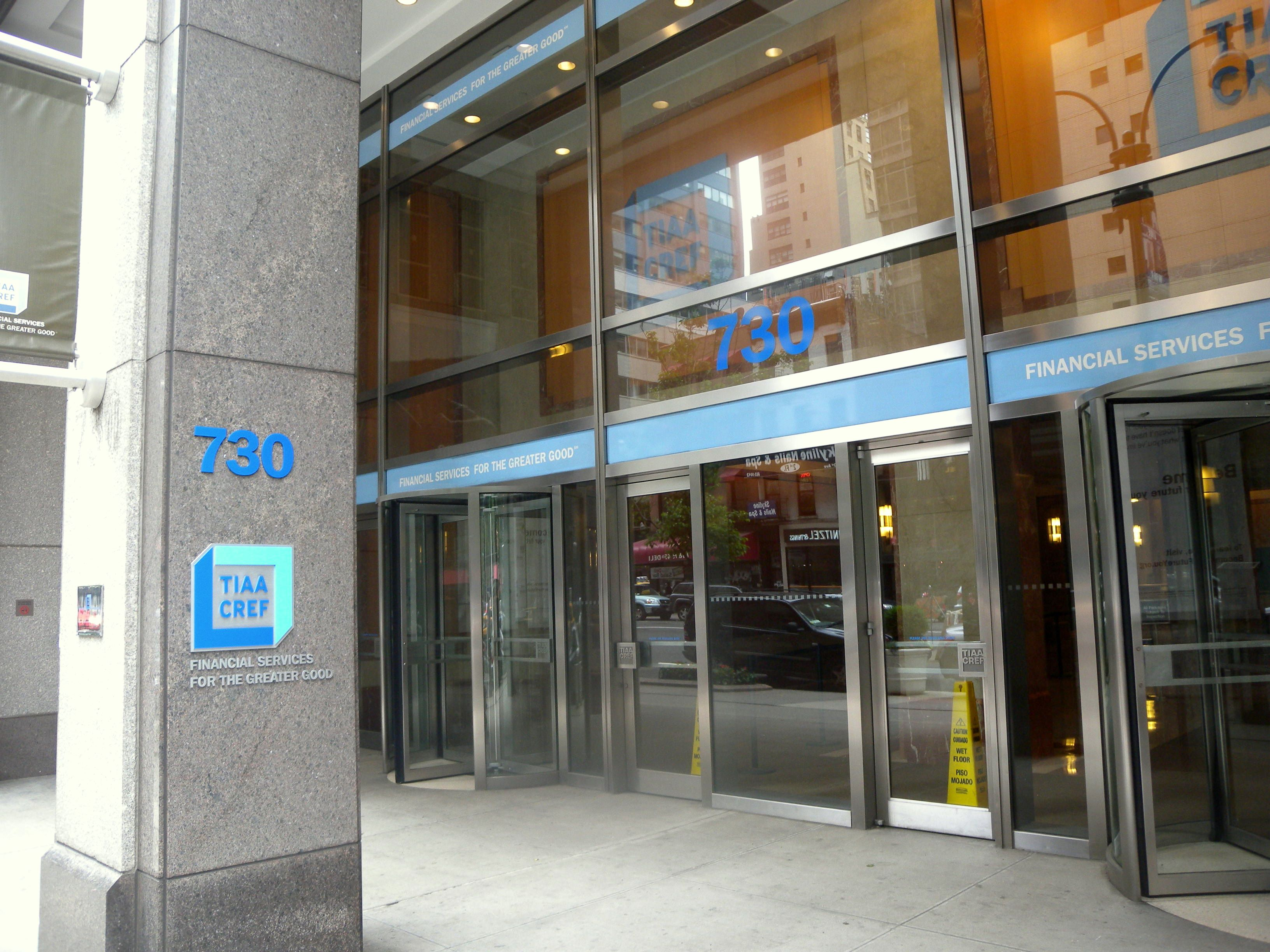 Looking west at office entrance on a cloudy day.